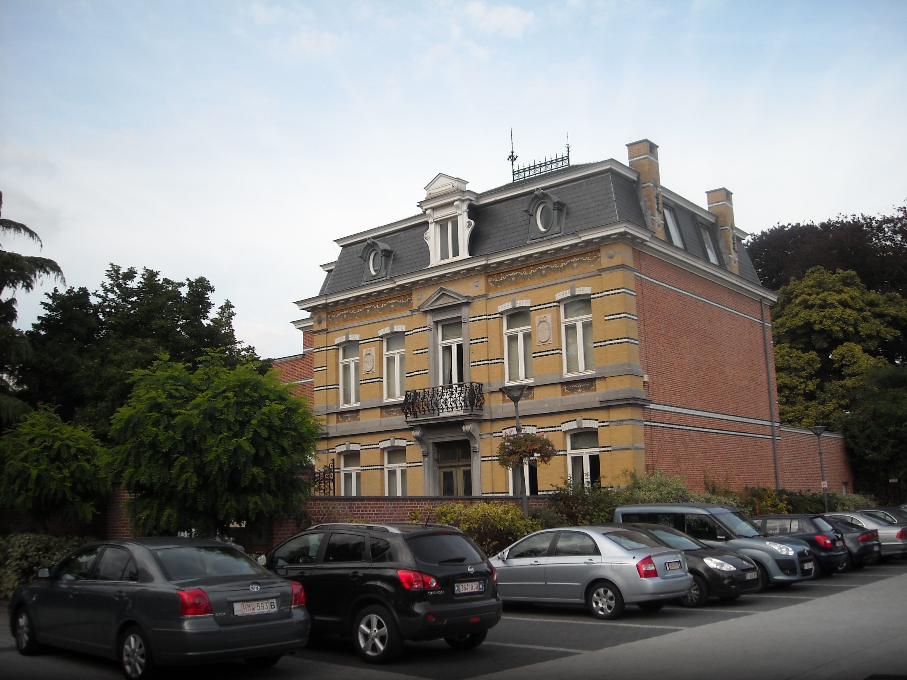 House of the type 'herenhuis', c. 1906, Richard Orlentstraat 5, Zwijndrecht, Belgium. Private residence.